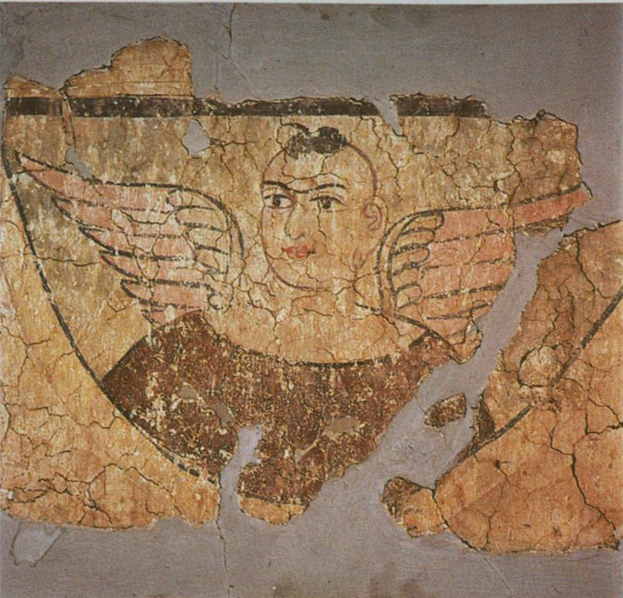 Fresco from Stupa shrine M III (Miran, China)